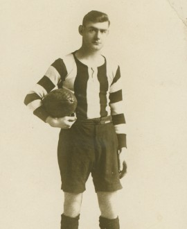 Photograph of Harry Saunders from 1923-1924